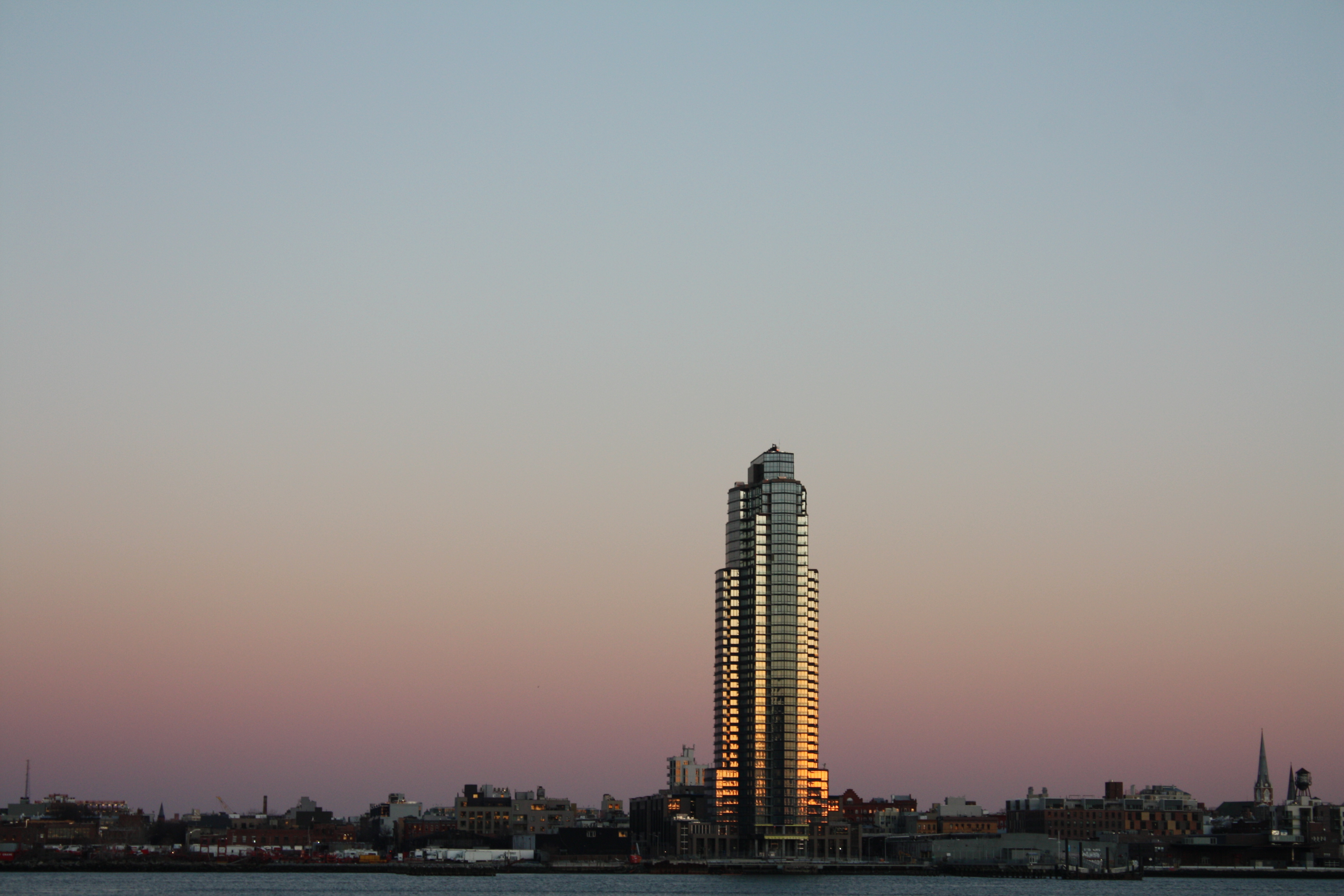 A photo of The Greenpoint taken from the East River trail in February 2019.